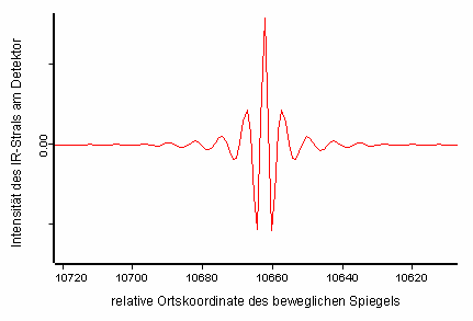 Interferogram measured with a FTIR spectrometer